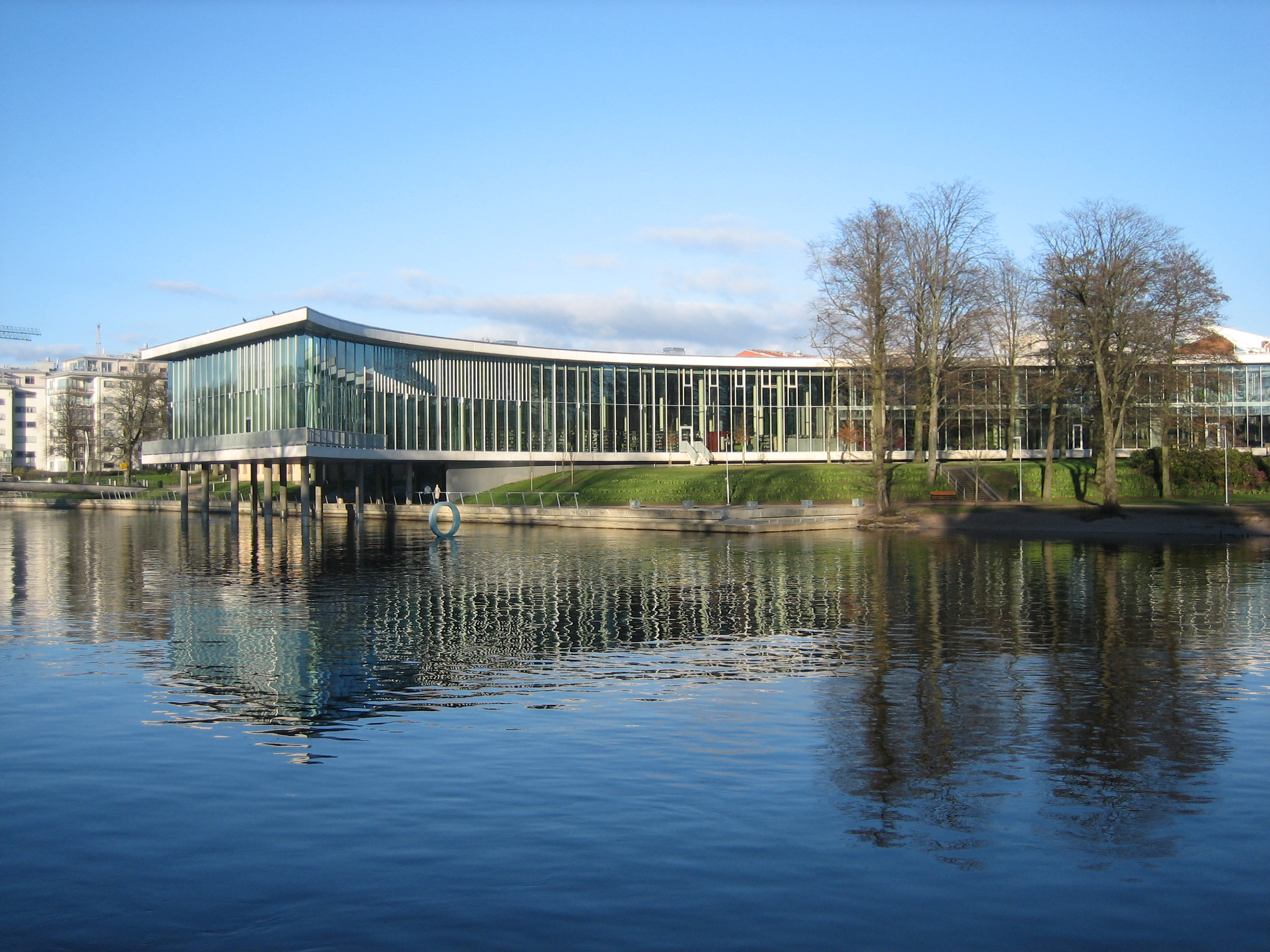 Exterior view of the public library in Halmstad, March 2008.